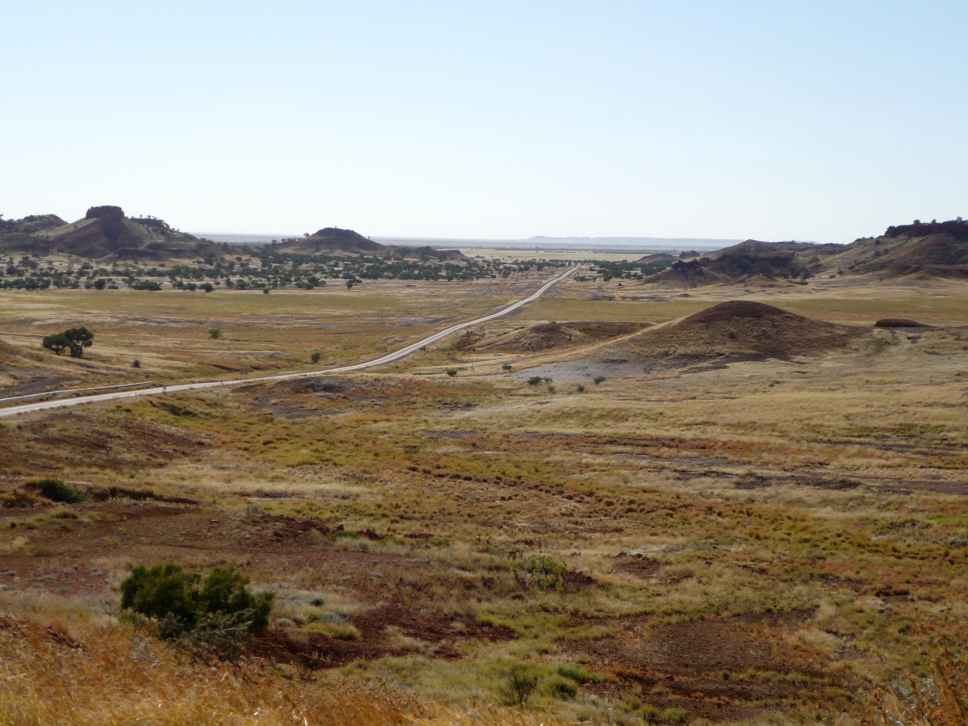 Kennedy Development Road, view from Cornpore Lookout at Middleton between Winton and Boulia, Queensland